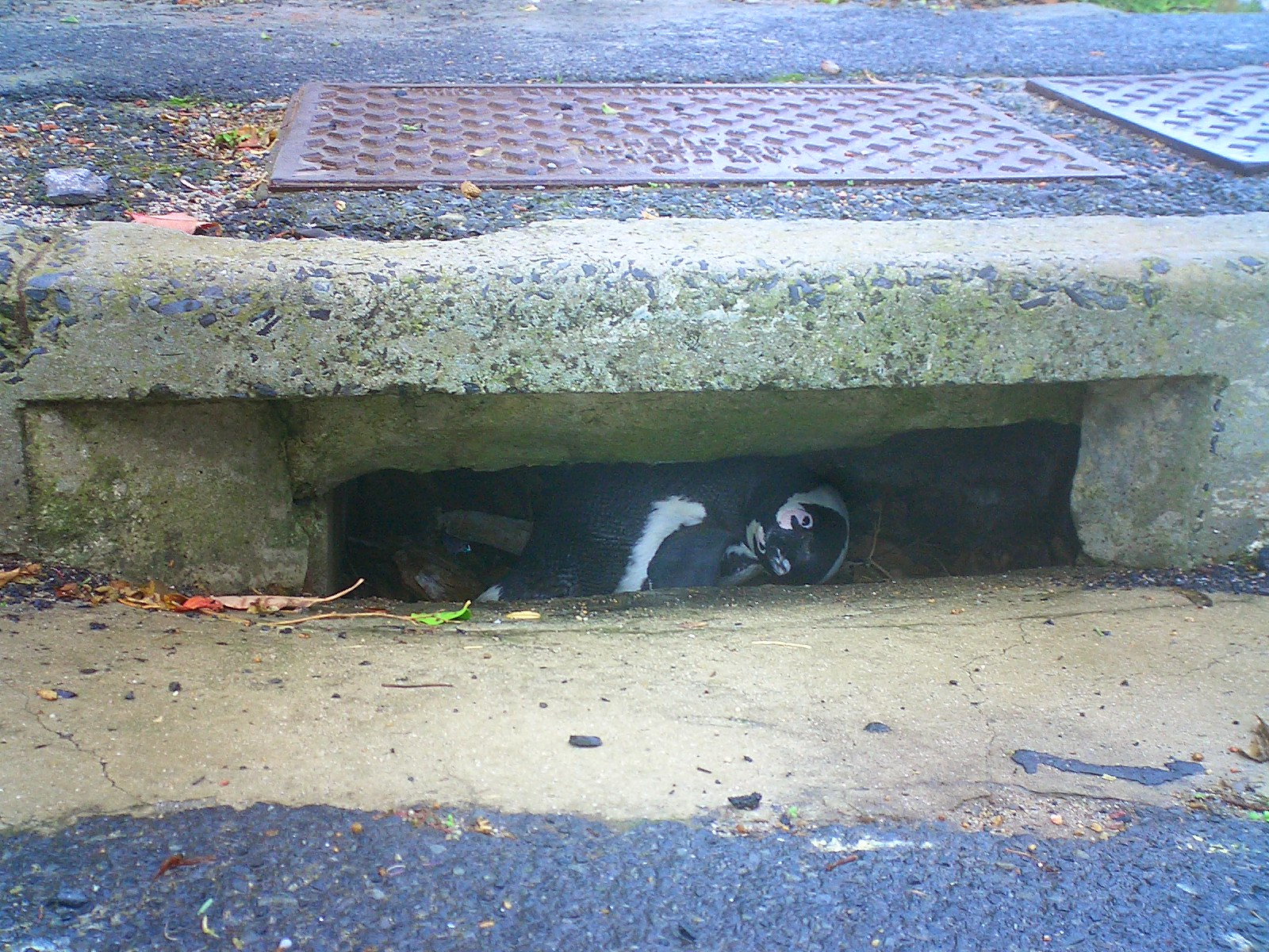 Urban wildlife. The strange places that penguins live! Penguin nesting in a roadside urban storm water drain.